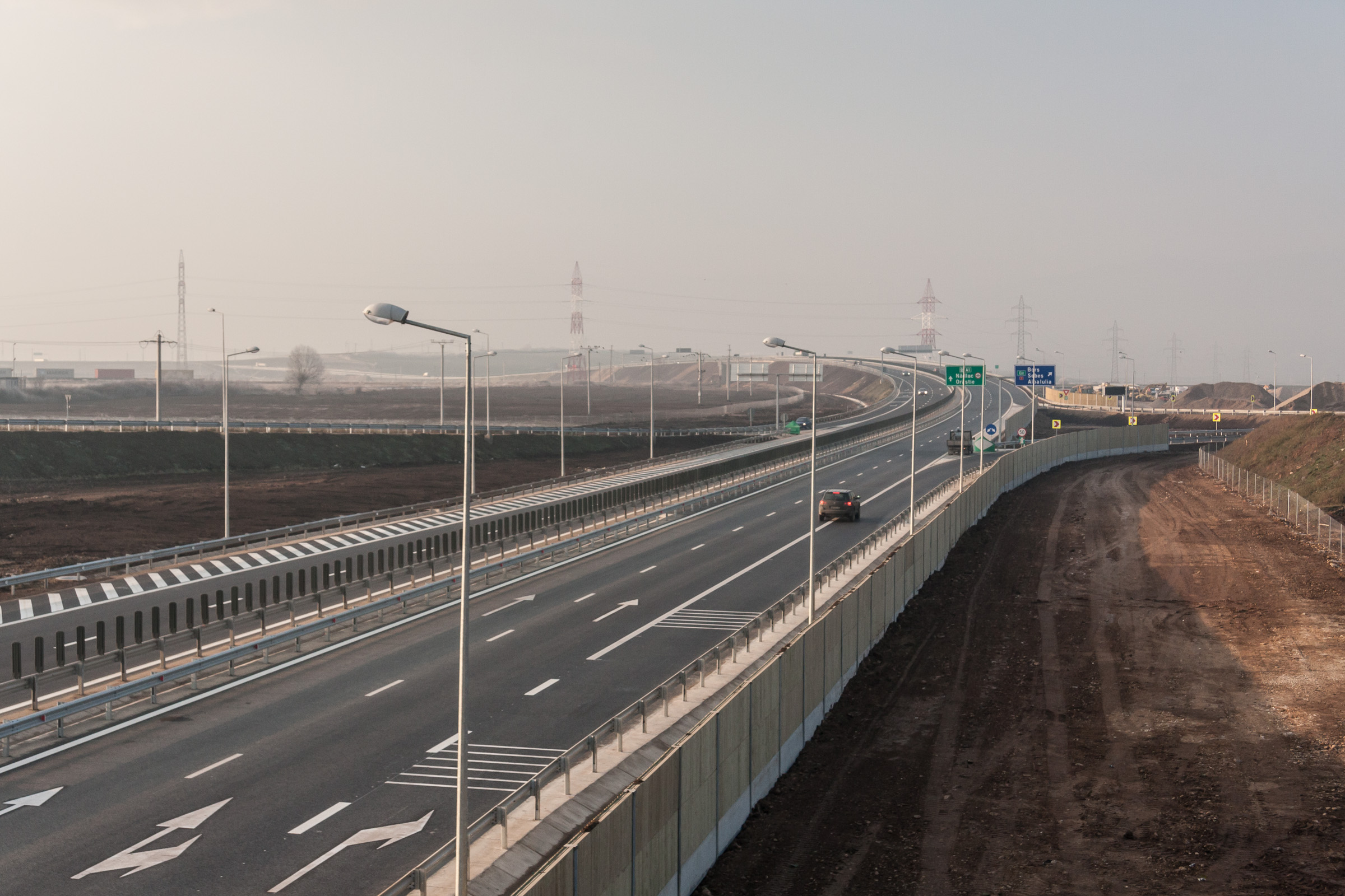 Autostradă 1 at the junction Lancărm